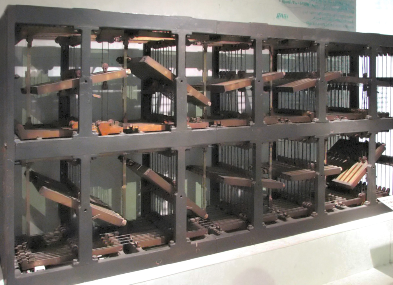 Wilbur machine, analogue computer